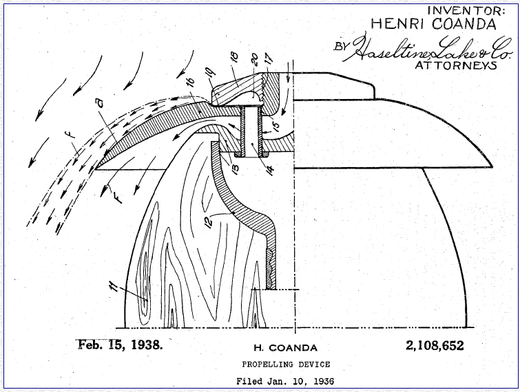 Coanda